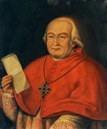 Antonio Dugnani (1748-1818), cardinal and apostolic nuncio to France